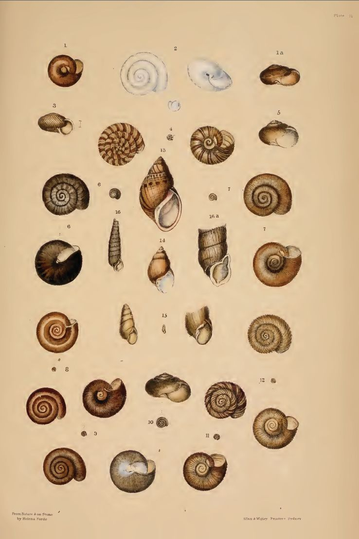 "A Monograph of Australian Land Shells", James Charles Cox (1834-1912), Mollusks -- Australia, Publisher: Sydney, W. Maddock